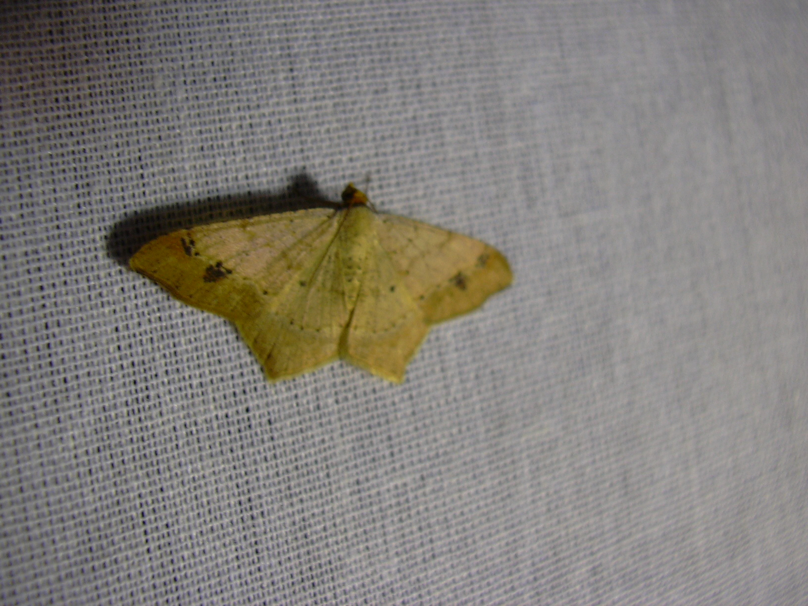 Leucaena leucocephala (Macaria abydata). Location: Maui, Kahului (←that's what the bot says but I wouldn't trust it. the first species name is a tree)